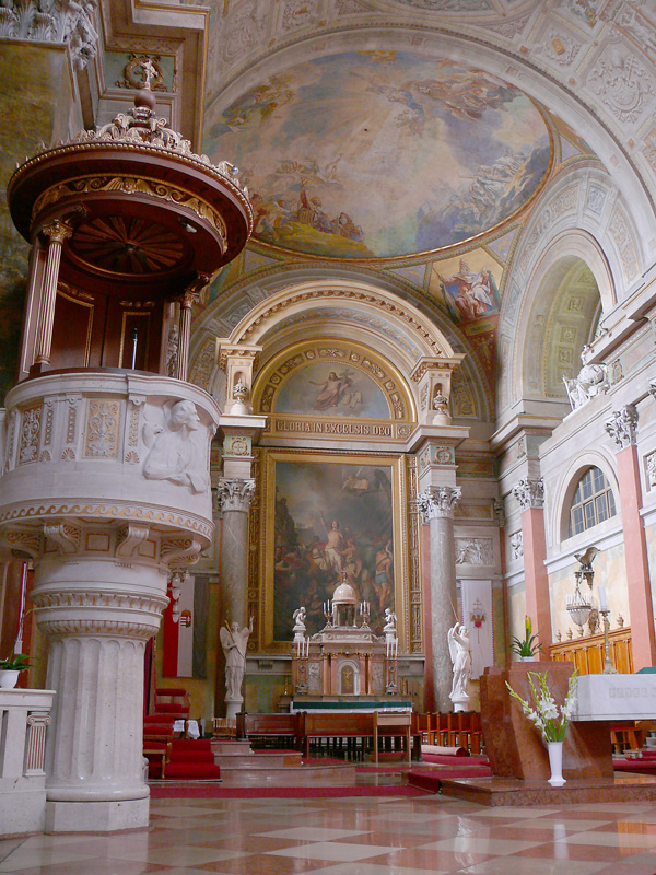 The Basilica of Eger